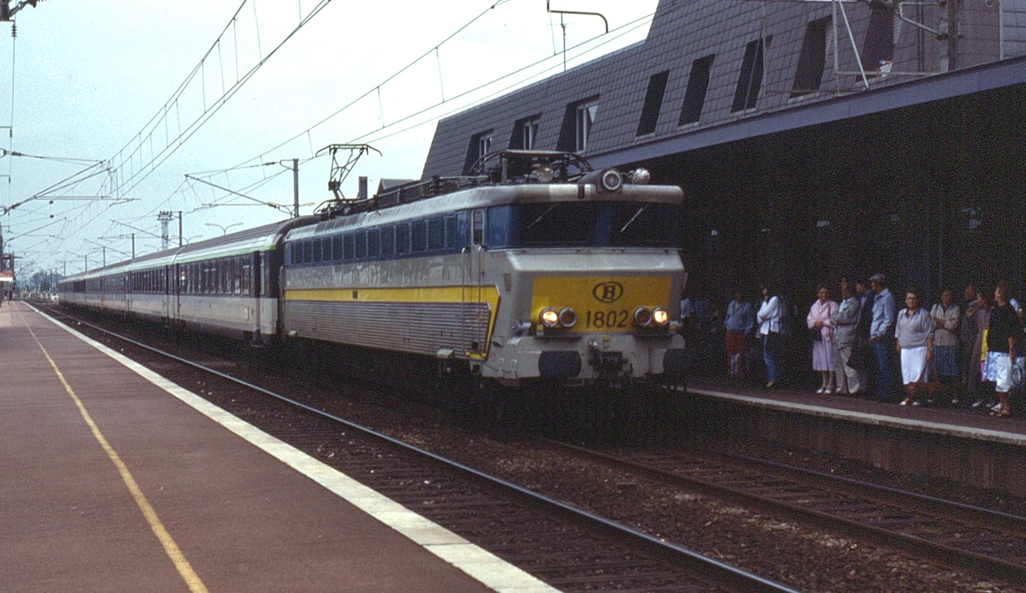 The original Class 18s were Belgian Railways' quadruple-voltage locomotives for international trains on the Paris – Brussels – Köln route. Similar to SNCF's class CC40100 but higher powered. Seen at Compiègne on 25 August 1989 is no. 1802.